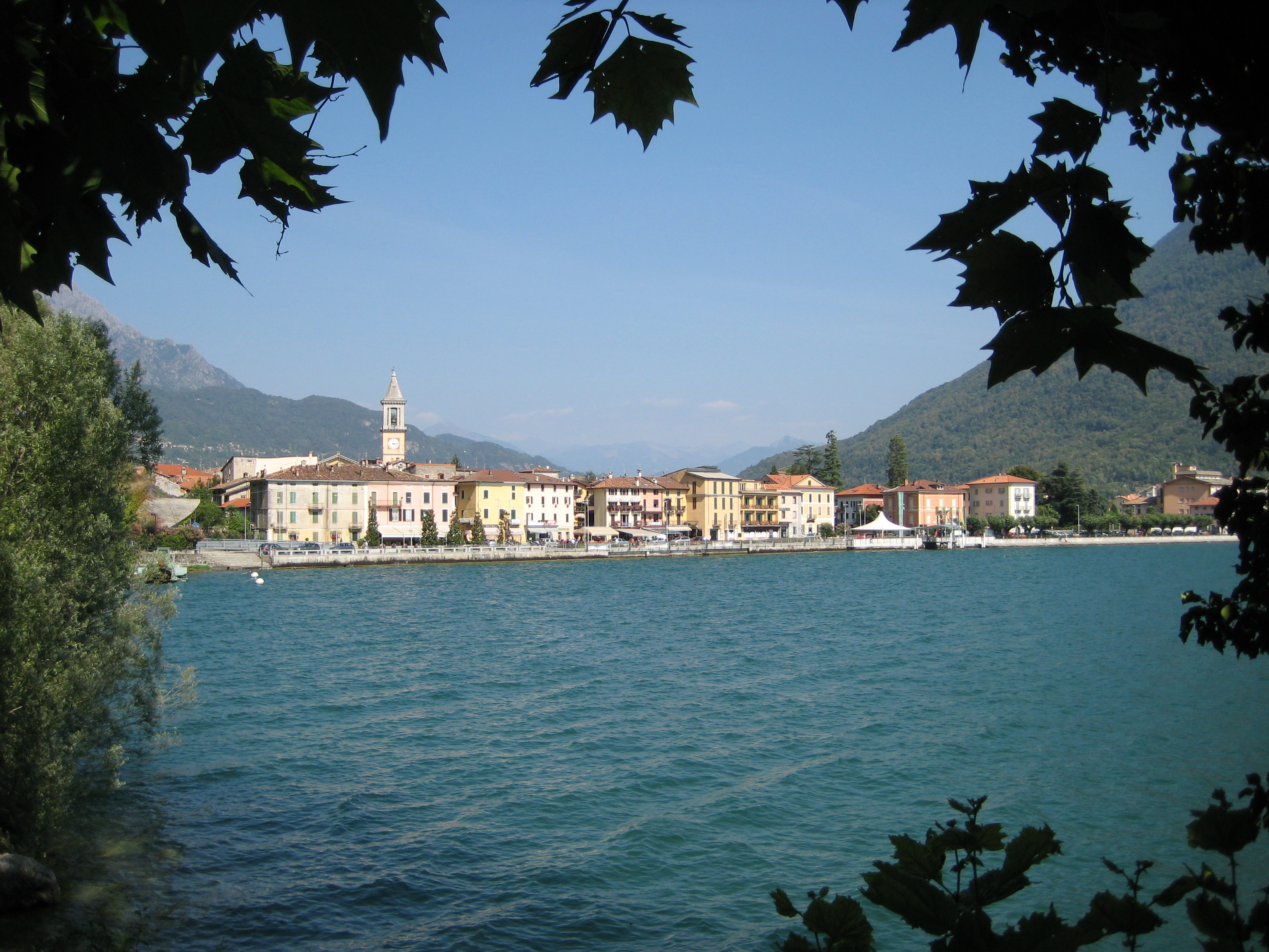 Porlezza, Lake Lugano